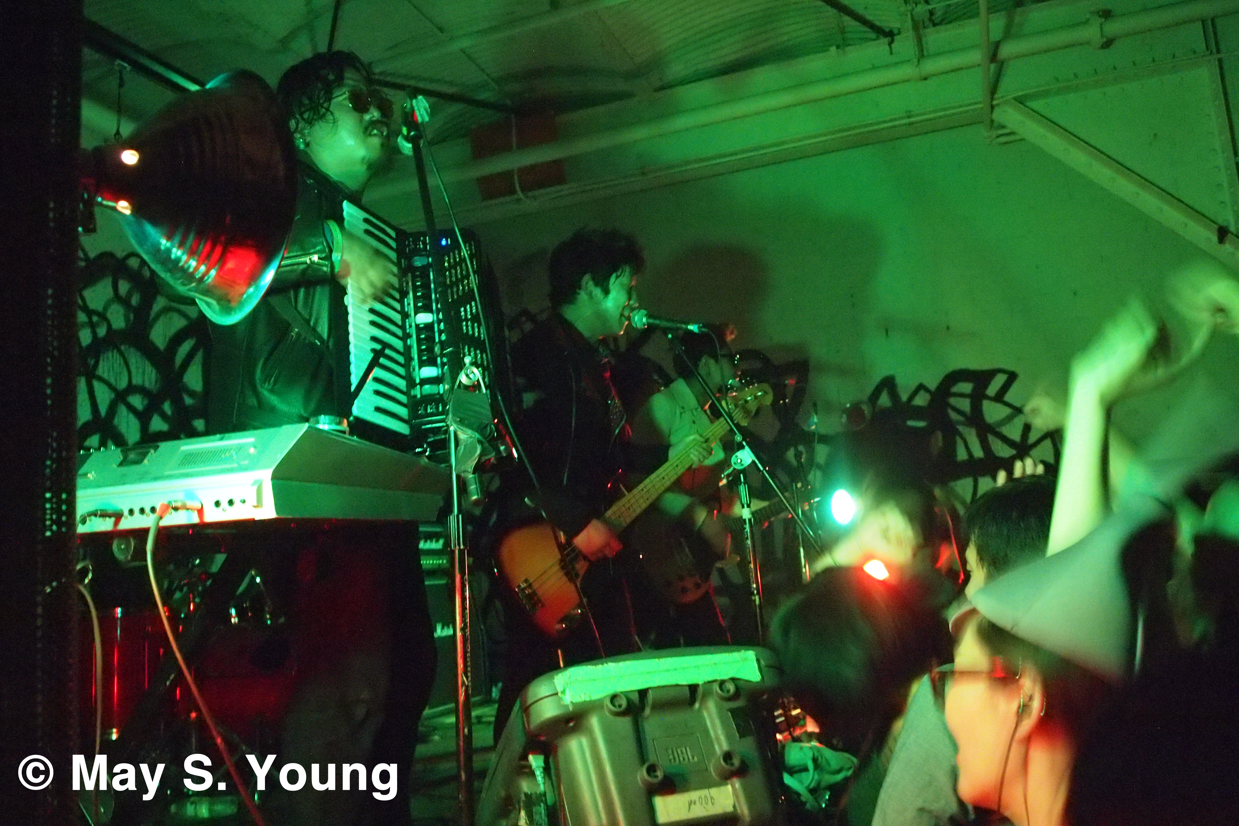 Crying Nut, Seoulsonic 2012, Brooklyn, NYC, 285 Kent.